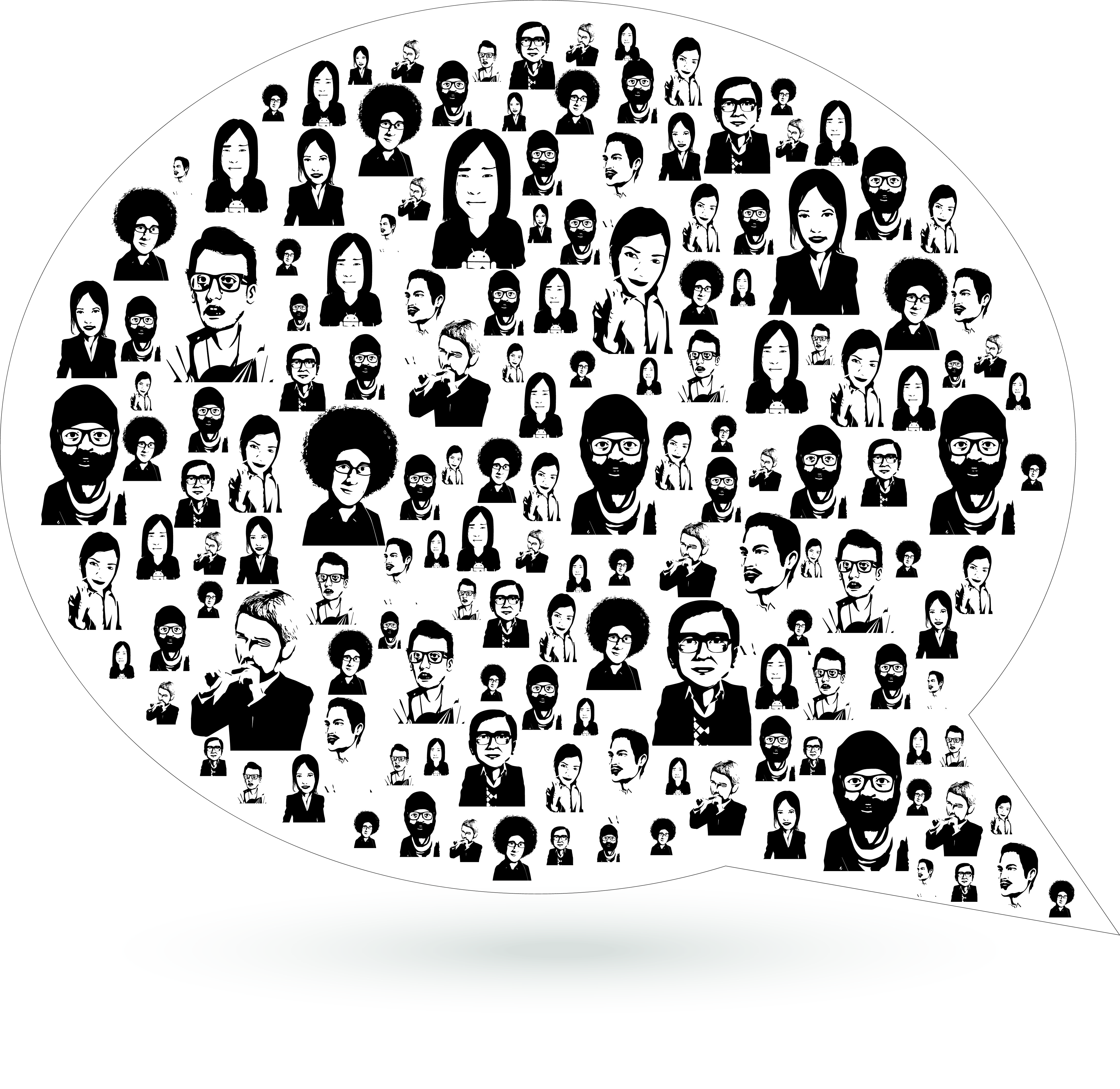 Crowdtesting, Crowdsourcing.